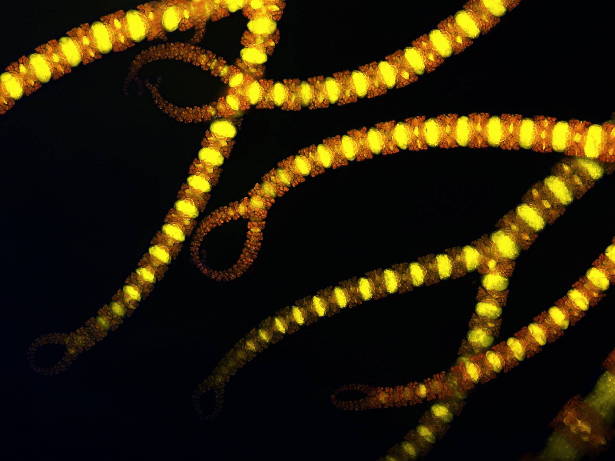 Red alga Ceramium tenuicorne under epifluorescence microscope. The yellow fluorescence is caused by the proteinic pigment called R-phycoerythrin, which under normal lighting conditions appears red and gives the characteristic color to many red algal (Rhodophyta) species.